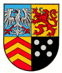 Coat of arms of Höheinöd